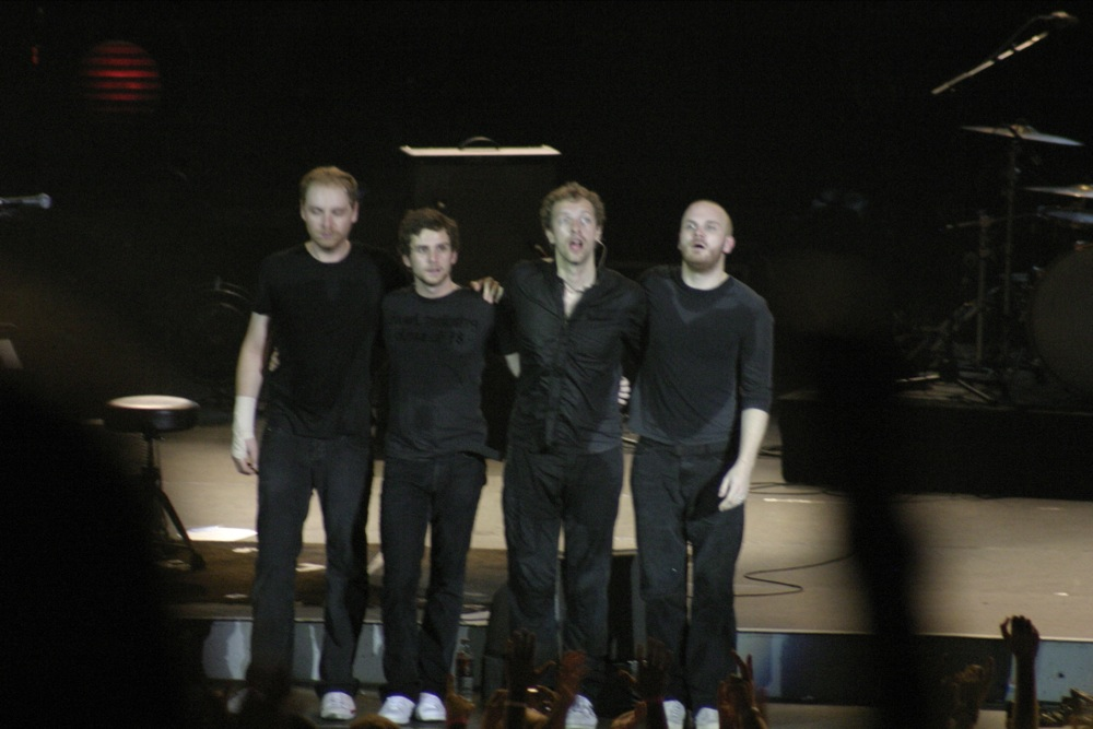 Coldplay's Concert at Verizon Wireless Amphitheater in Bonner Springs, KS - September 21, 2005